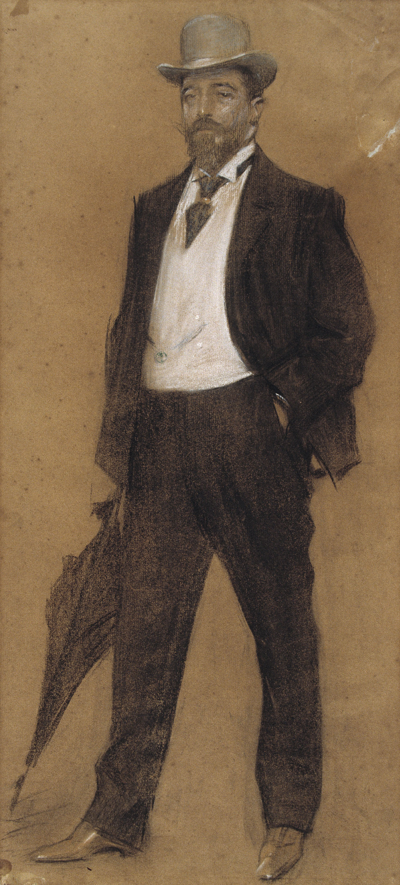 Portrait by Ramon Casas conserved at MNAC in Barcelona. Imagen 021